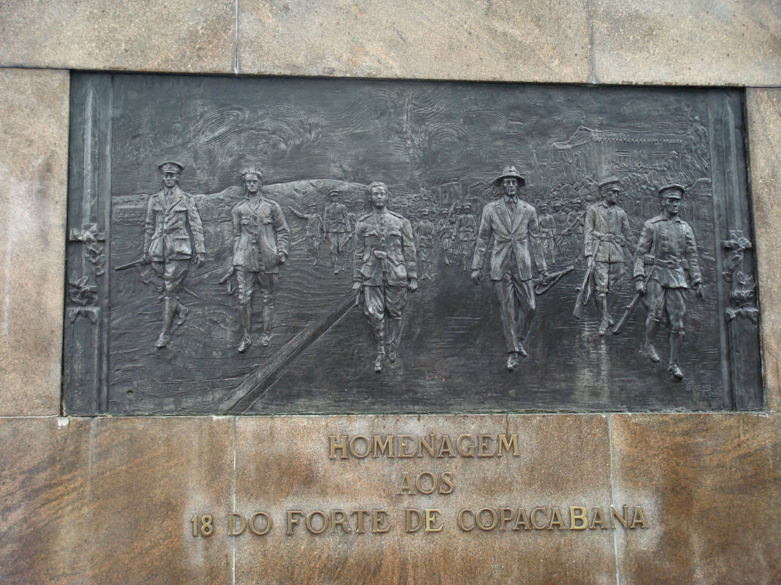 Commemorative plate of the 18 do Forte in the Copacabana Fort, Rio de Janeiro, Brazil.